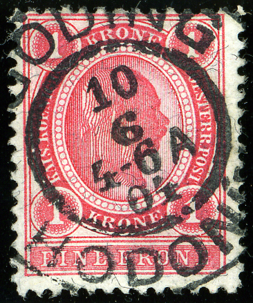 Austrian KK 1 krone stamp, issue 1899, bilingual cancelled GÖDING-HODONÍN in 1904 (Moravia)